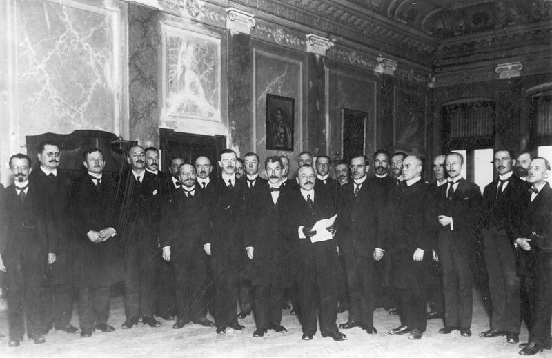 SHS 1918 adresa Aleksandru